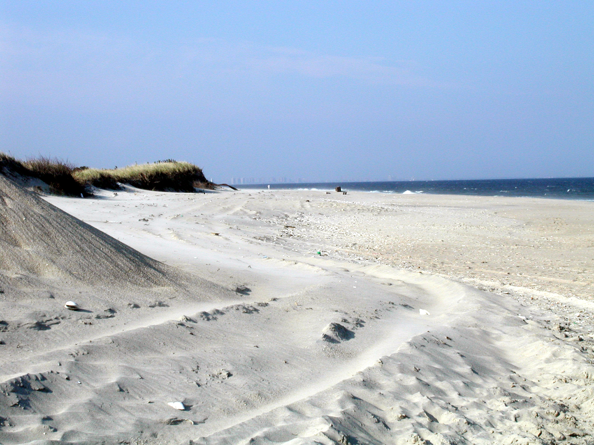 One of the beaches of Sandy Hook, New Jersey